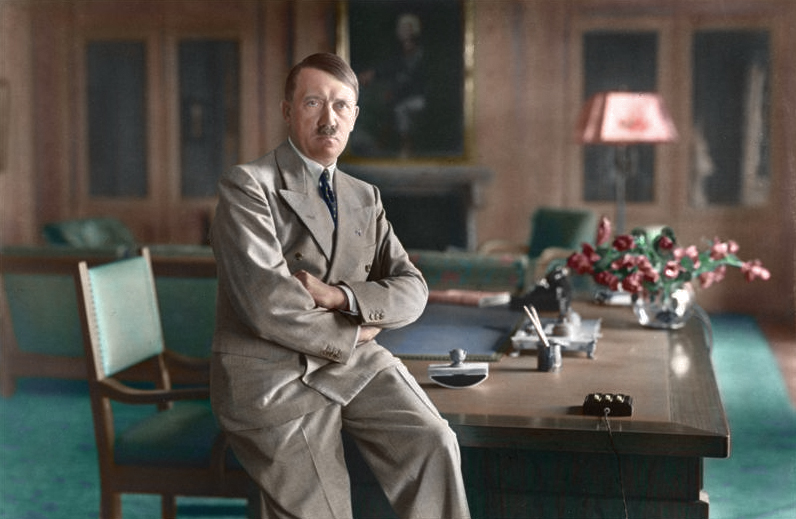 Adolf Hitler in Berghof residence - colorized colors inspiration